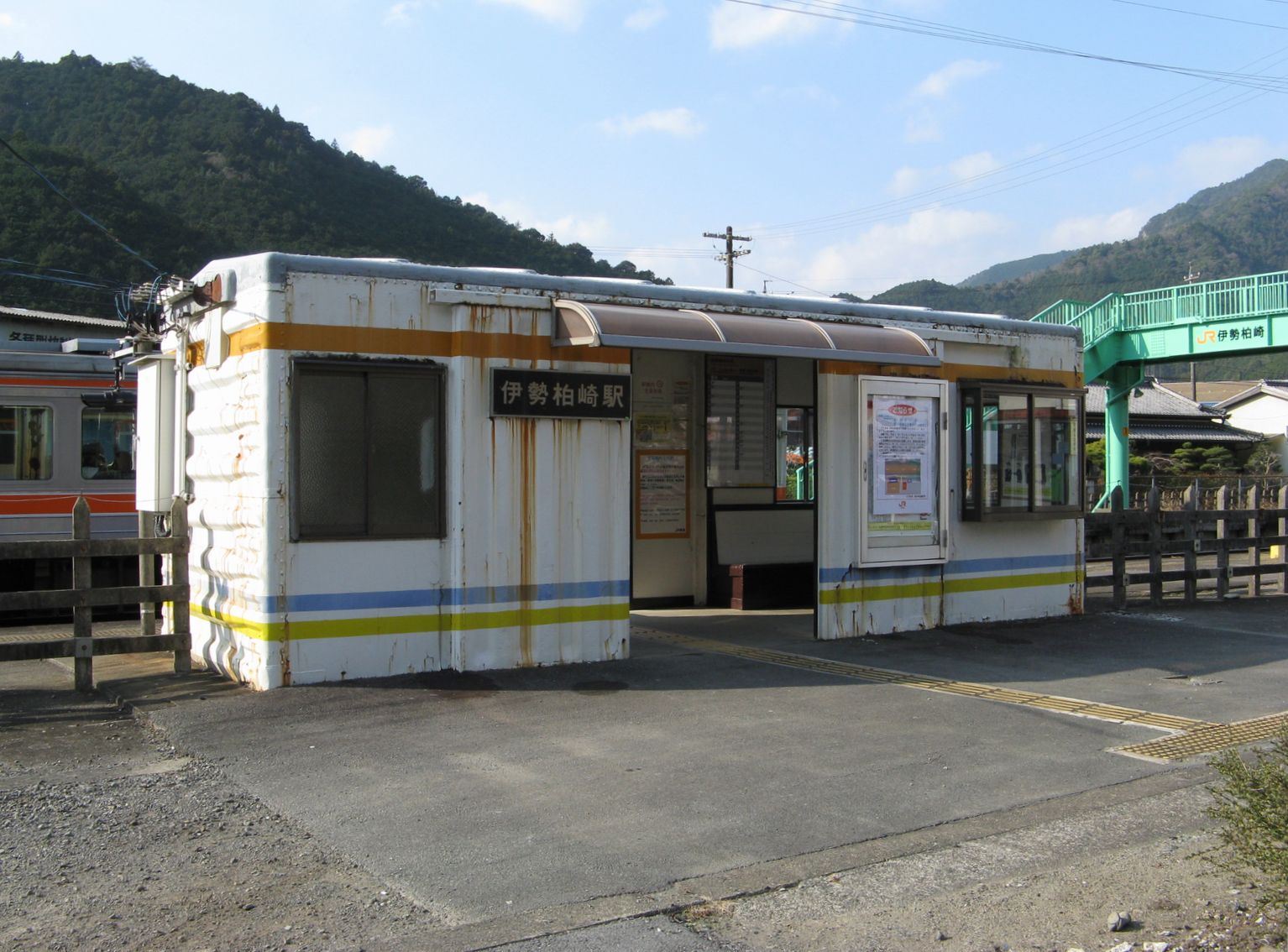 Former Ise-Kashiwazaki Station building, Taiki, Mie, Japan